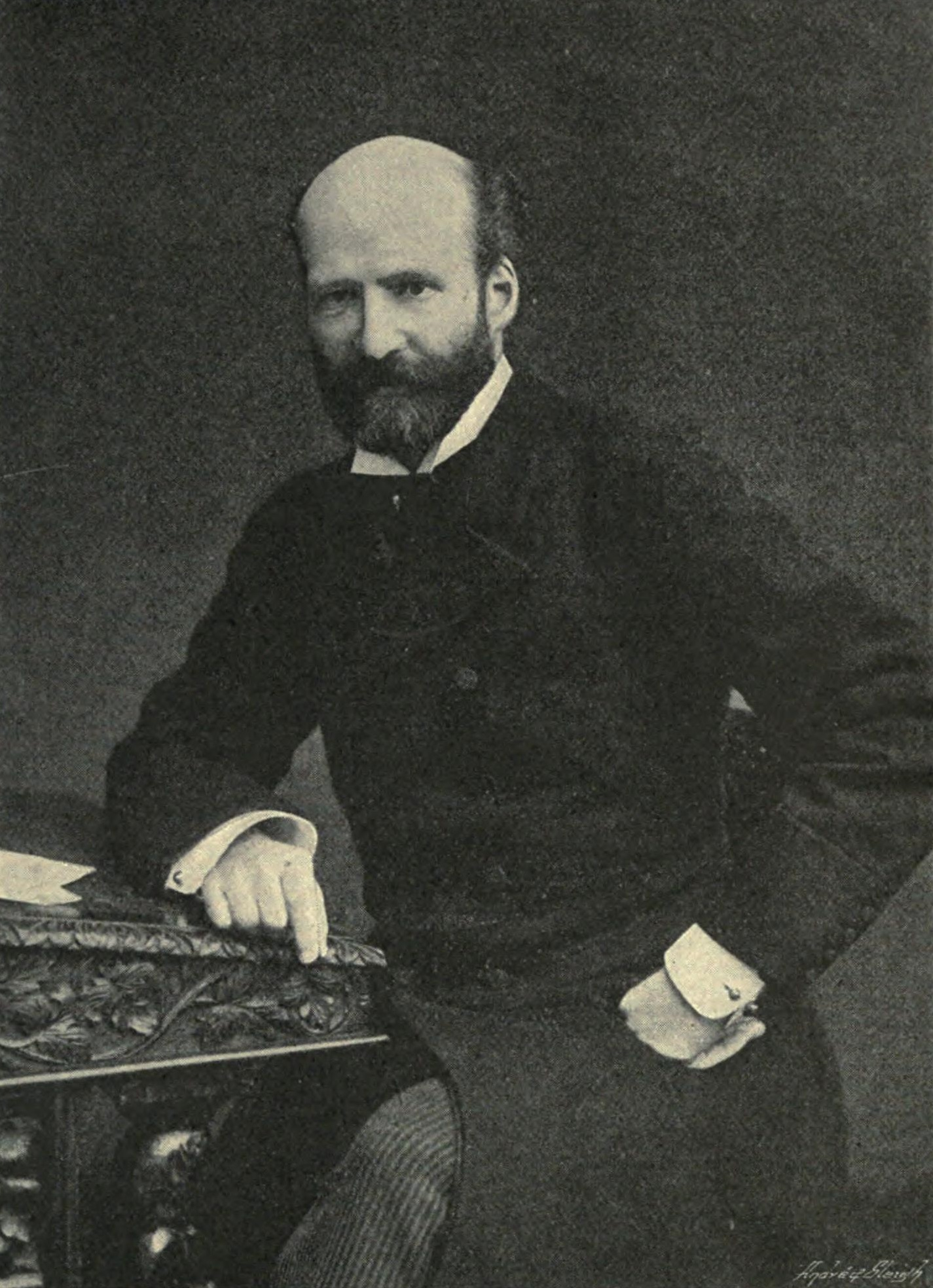 Portrait of Edward Marjoribanks, 2nd Baron Tweedmouth (1849-1909)